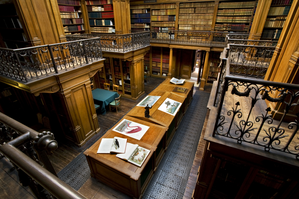 The Library of Teylers Museum (1885), Haarlem, The Netherlands